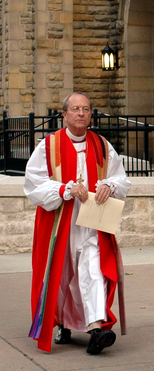 Bishop Gene Robinson of the Episcopal Diocese of New Hampshire, walking outside of Trinity Episcopal Church in Columbus, Ohio, during the 75th General Convention of the Episcopal Church.